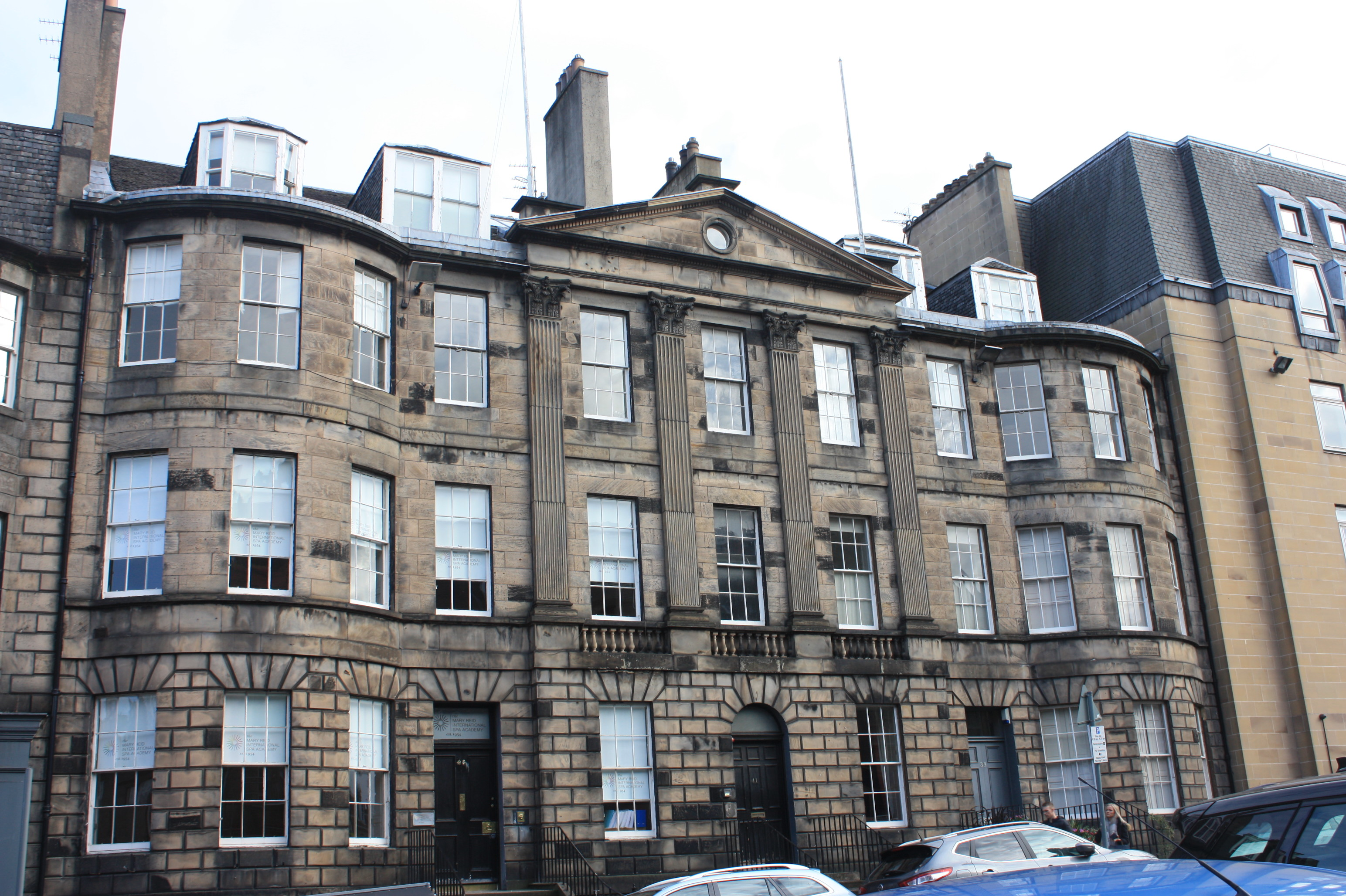 39 to 43 North Castle street, Edinburgh